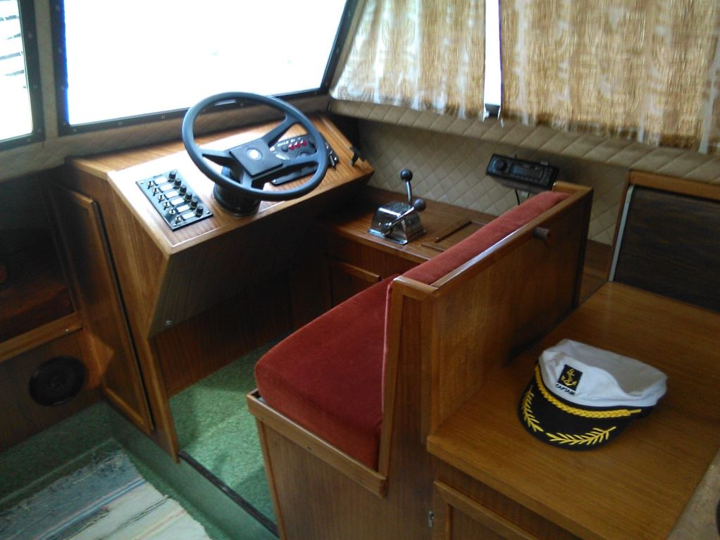 Picture 2014 Karmøy